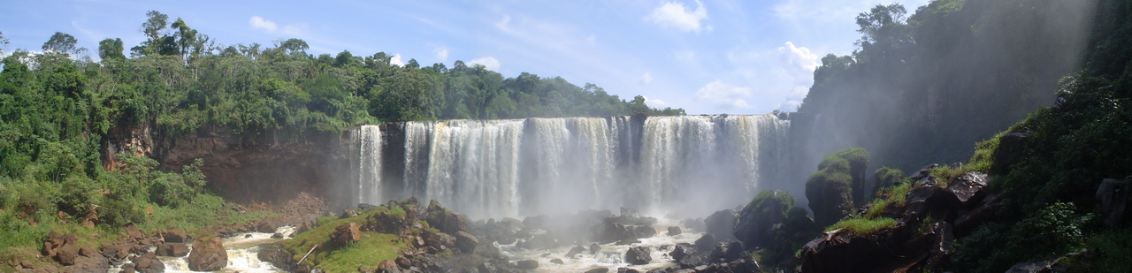 Ñacunday falls panoramic view taken from the bottom view